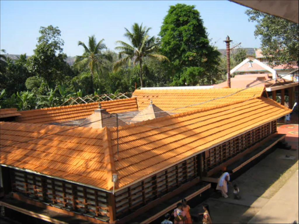 Kanjiramattom siva Temple Aerial View (Thodupuzha)